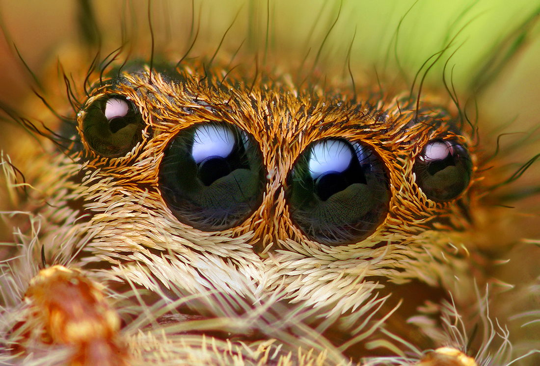 Flickr description: "This little Phidippus princeps was found (not by me) inside, and photographed before her I released her. ... The above photo ( a minor crop) was taken at ~7-8:1 magnification with the 28mm reversed to some extension tubes mounted to the bellows. The lens was set to f/5.6, to preserve sharpness, but as a result the depth of field was extremely shallow. Therefore, I had to take a photo for each individual eye. I ended up stacking 5 photos manually in photoshop (it took forever). The original photo before resizing is pretty impressive, as you can see actual ridges in the scales on the side of her head, and you can see the thread-work of the shirt reflected in her eyes! I actually had to focus stack the reflections in her eyes."